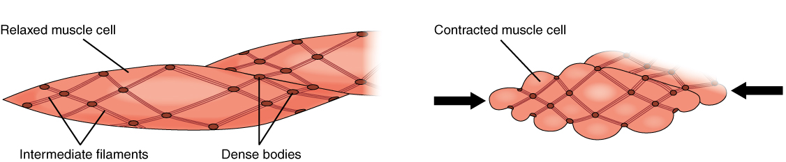 Version 8.25 from the Textbook OpenStax Anatomy and Physiology Published May 18, 2016